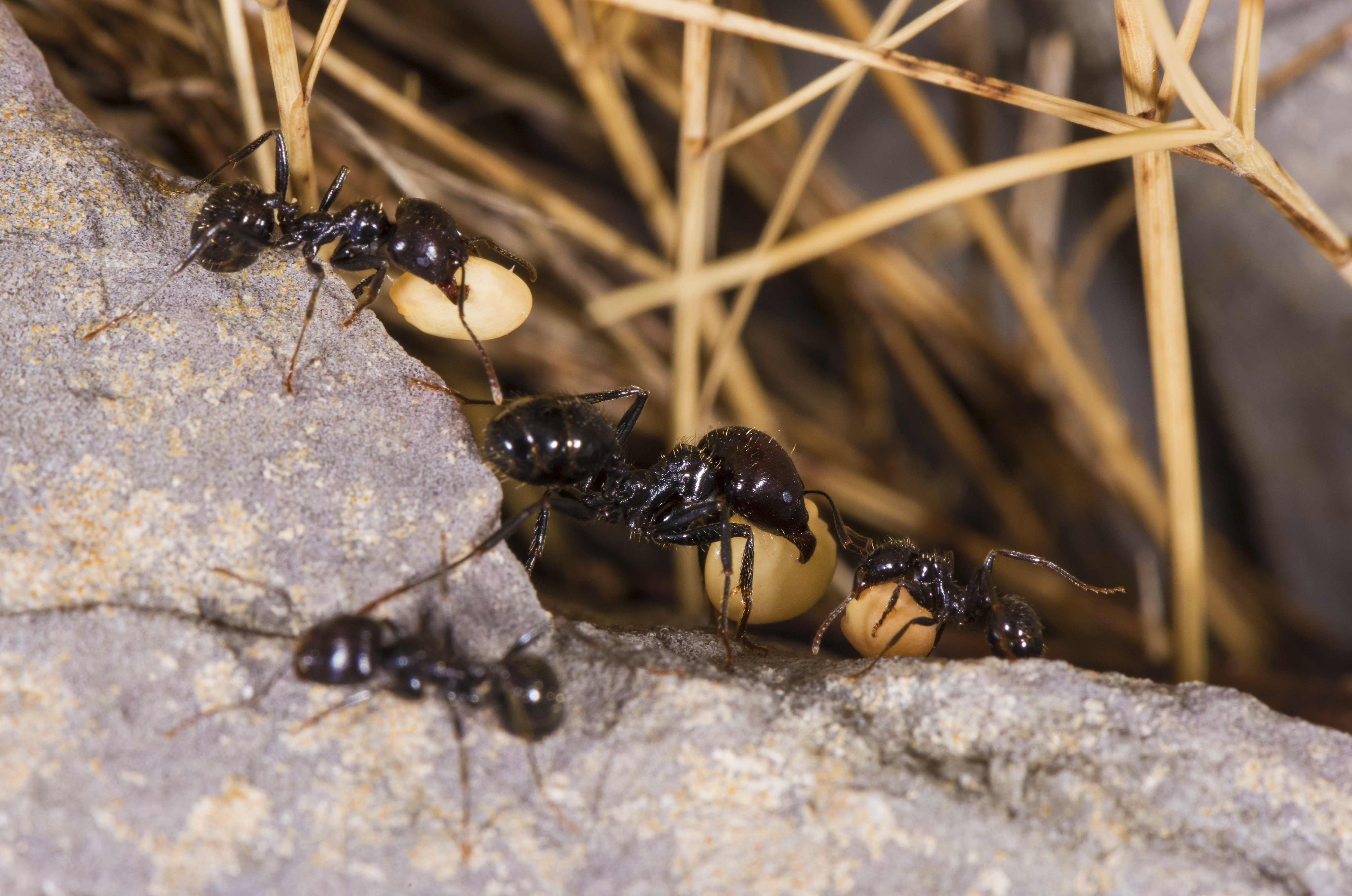 Messor capitatus. Forest of Sète, Sète, Hérault, France.